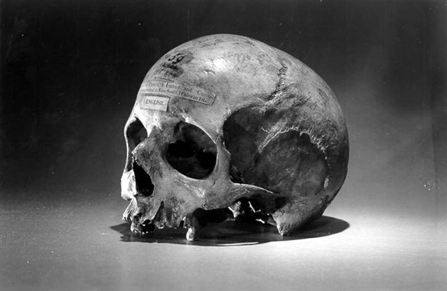 Black and white photo of the skull of Alexander Pearce, which is held in the University of Pennsylvania, Philadelphia.